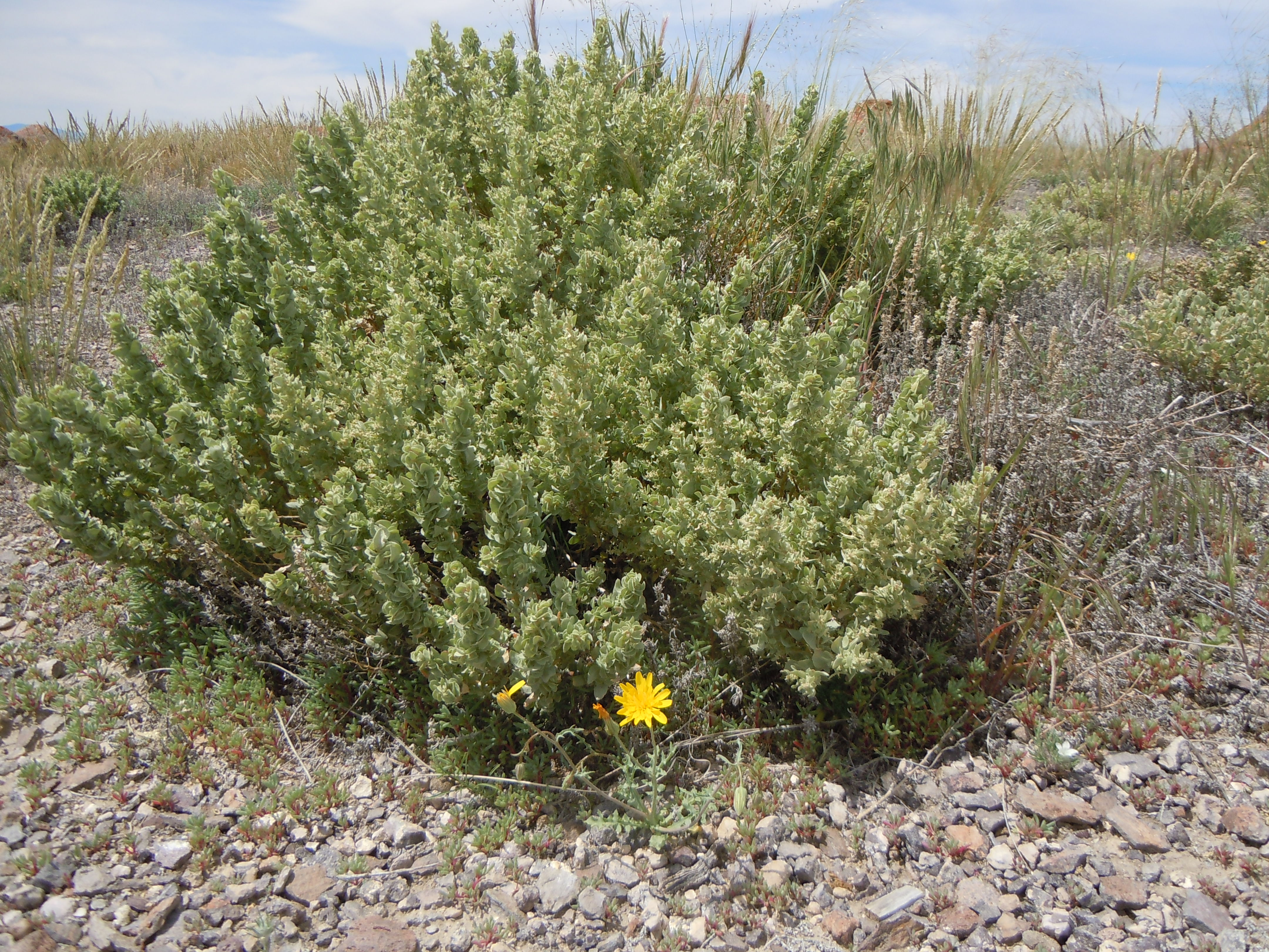 A ubiquitous shrub associated of sagebrush.